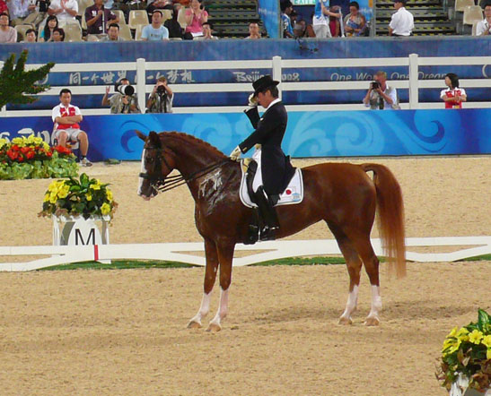 HOKETSU Hiroshi (法華津寛), the oldest athlete (Aged 67) in Beijing 2008 Olympic Game. He participated with his Hannoverian mare "WHISPER" (ウィスパー, 輕語) the Equestrian Event - Dressage Team Grand Prix